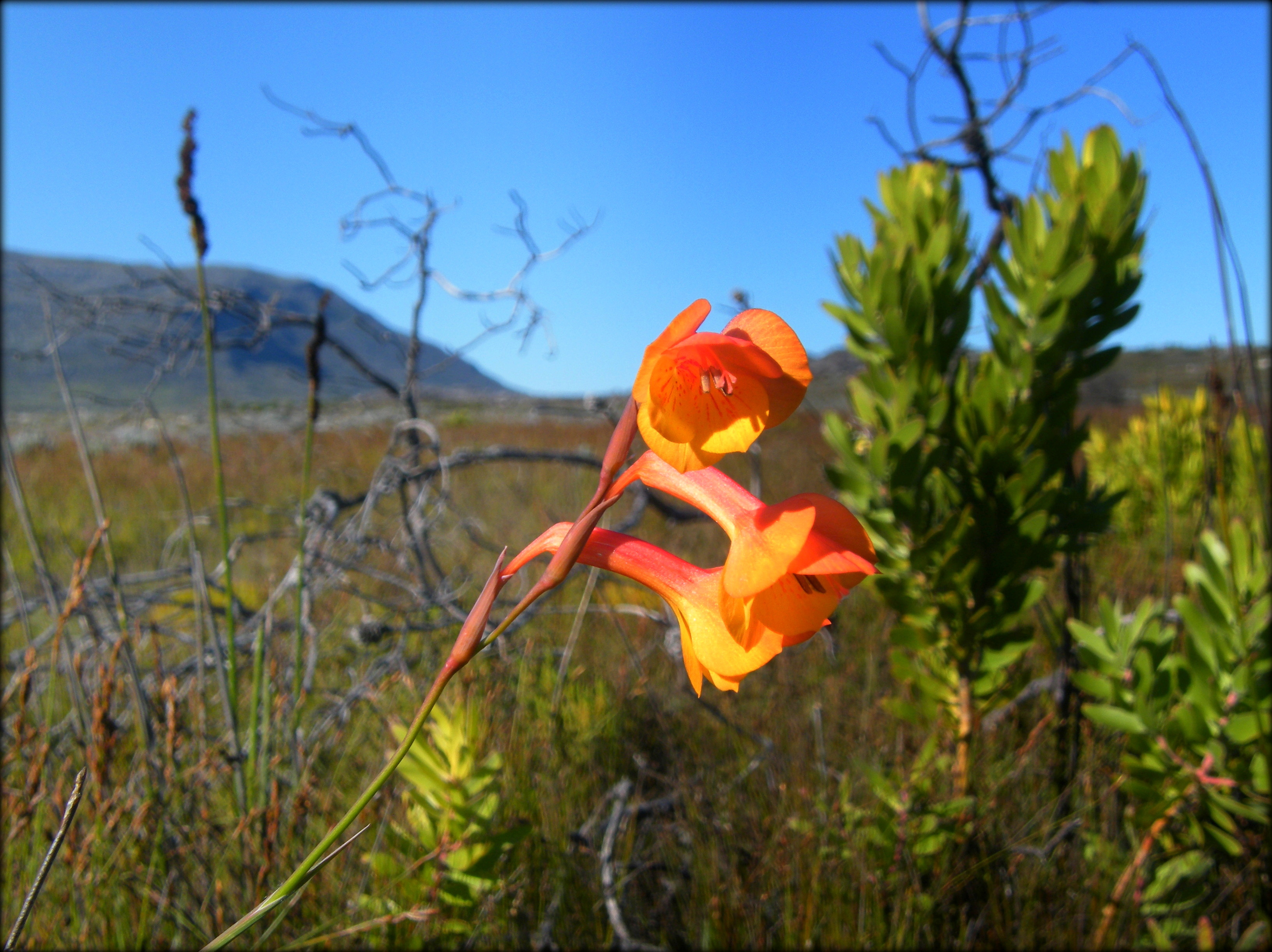 formerly bonaspei, Cape Point South Africa